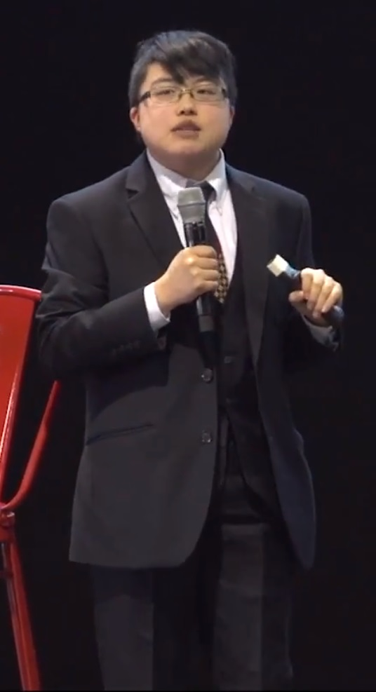 On Feb. 28, 2017, Lydia X. Z. Brown (they/them), past president of TASH New England, chairperson of the Massachusetts Developmental Disabilities Council and a board member of the Autism Women’s Network, presented on inequities in health services for disabled people with an intersectional focus on race, sexual orientation and gender identity. They also explored potential tools for change, from policy and advocacy actions (e.g., strengthening regulations, trainings, education and building coalitions) to community empowerment (e.g., collecting data and stories, creating safe spaces and providing trainings—especially by disabled people of color, for disabled people of color).